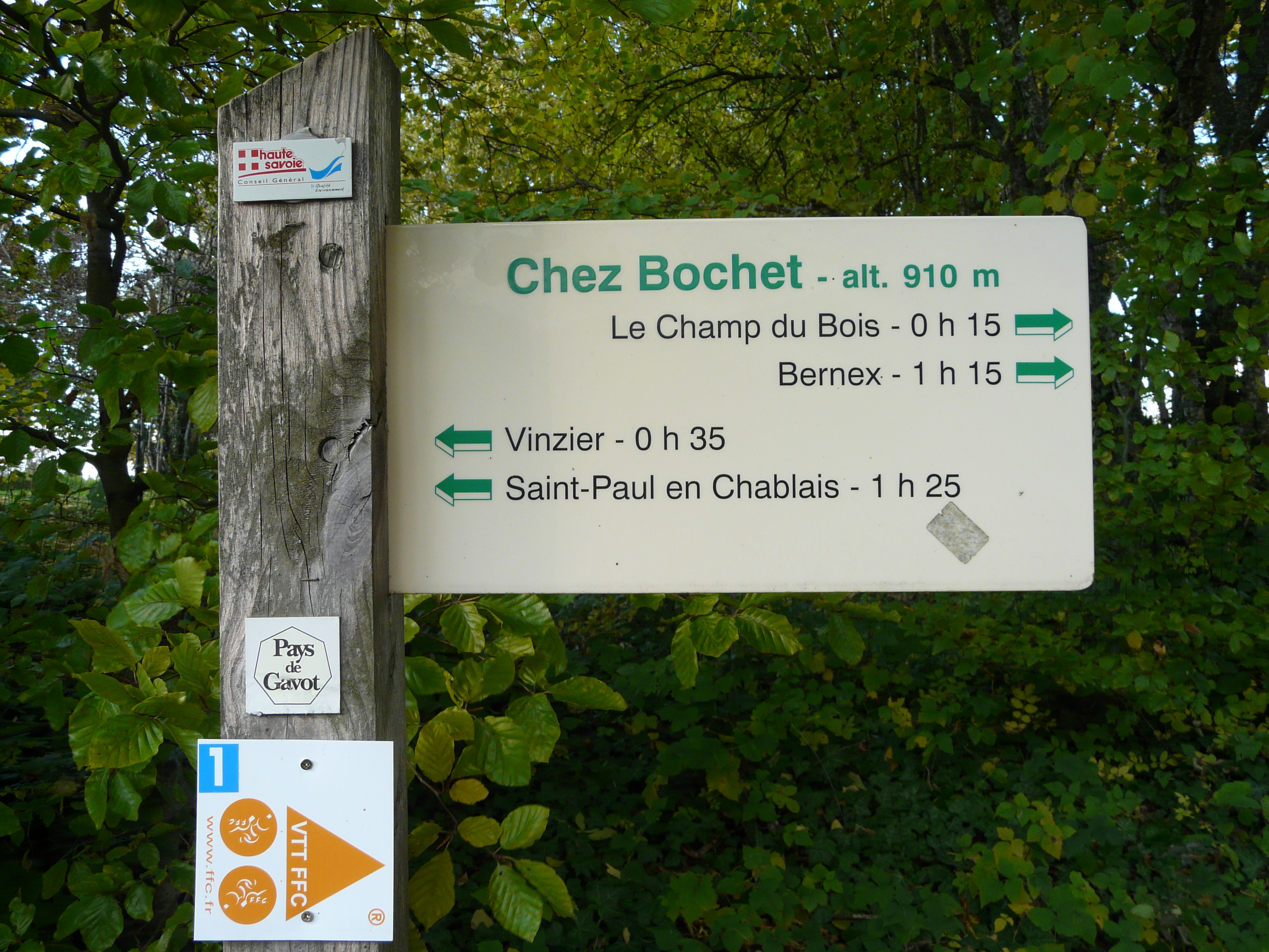 Footpath and mountain bike signposting in Saint-Paul-en-Chablais (Pays Gavot, Savoie F - 74500)